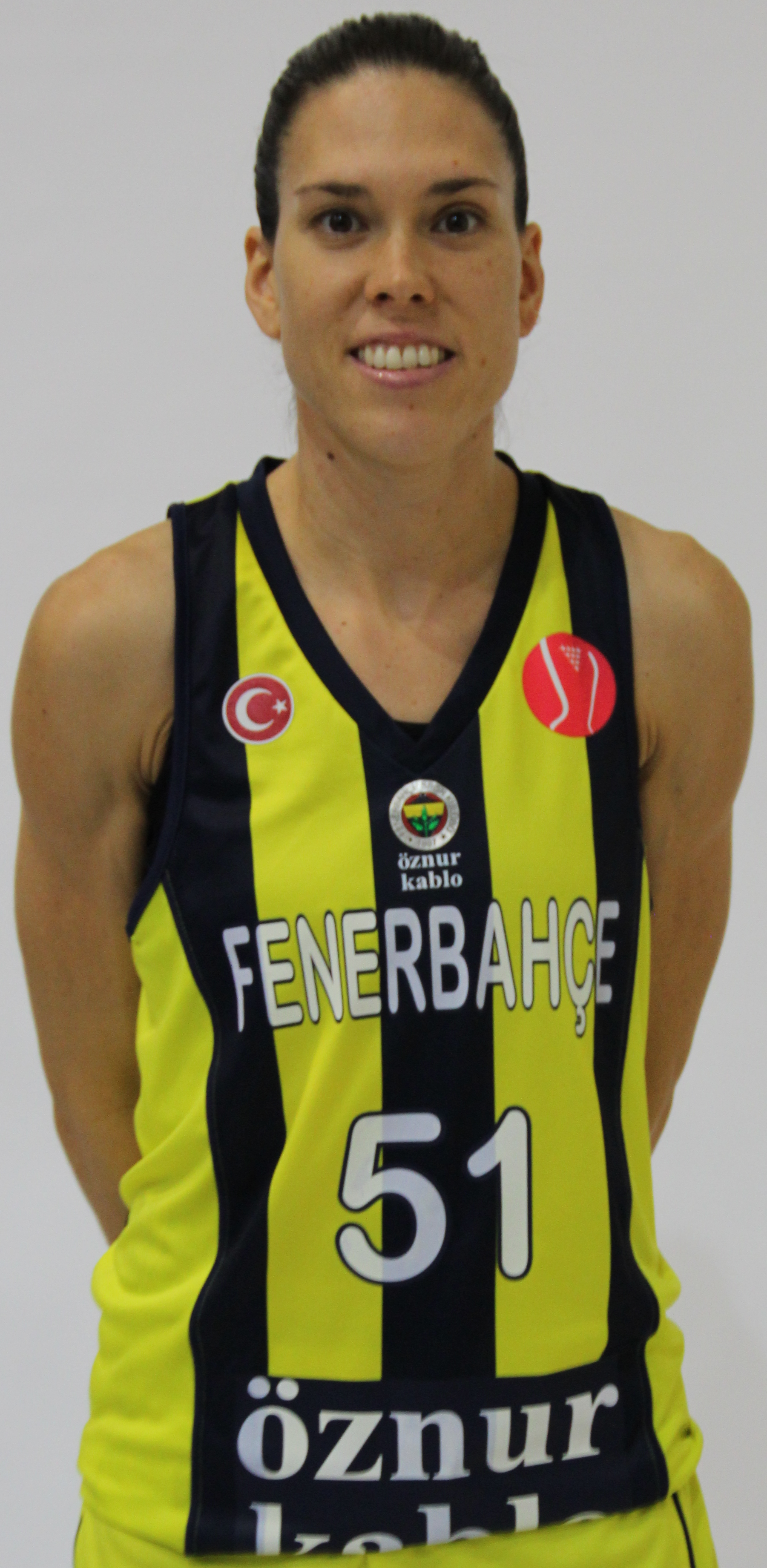 Anna Cruz 51 Fenerbahçe Women's Basketball 20191031